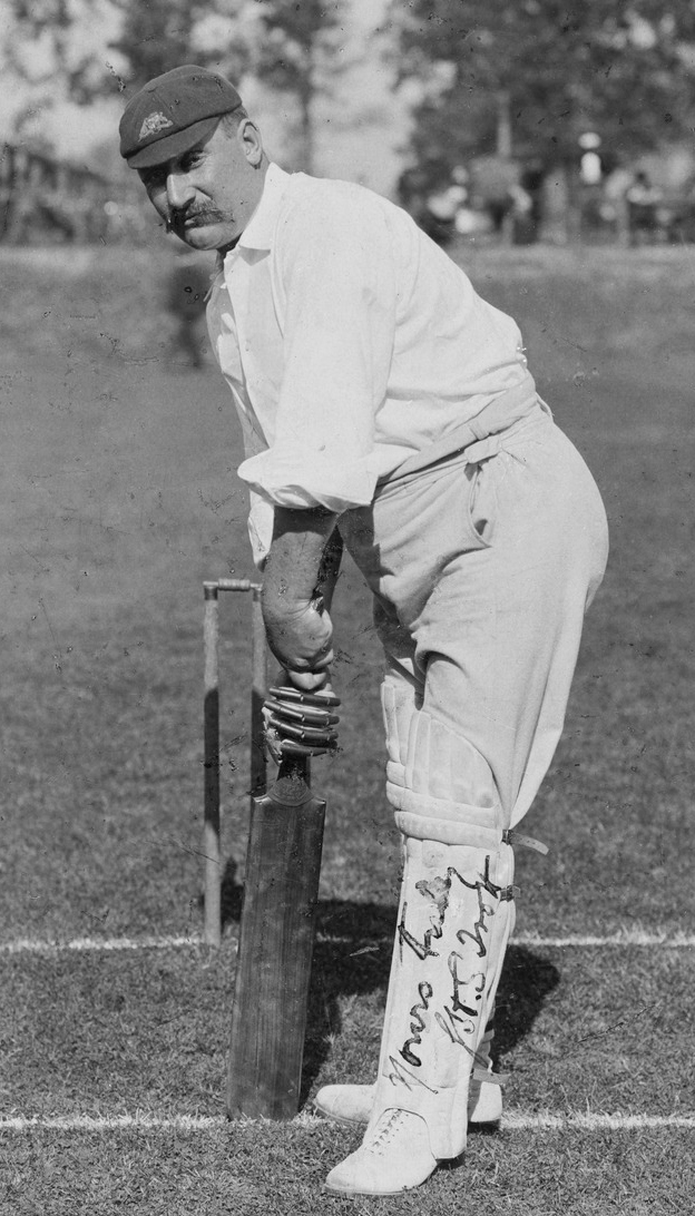 Harry Trott